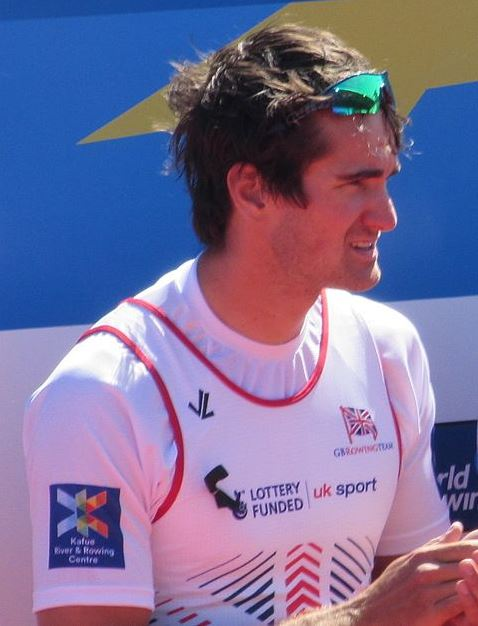 Stewart Innes at the 2016 European Rowing Championships in Brandenburg an der Havel, Germany.